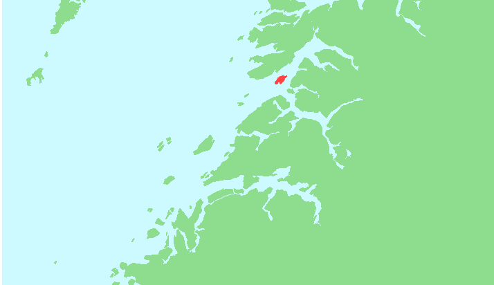 Locator map of Hjartøya, Nordland, Norway